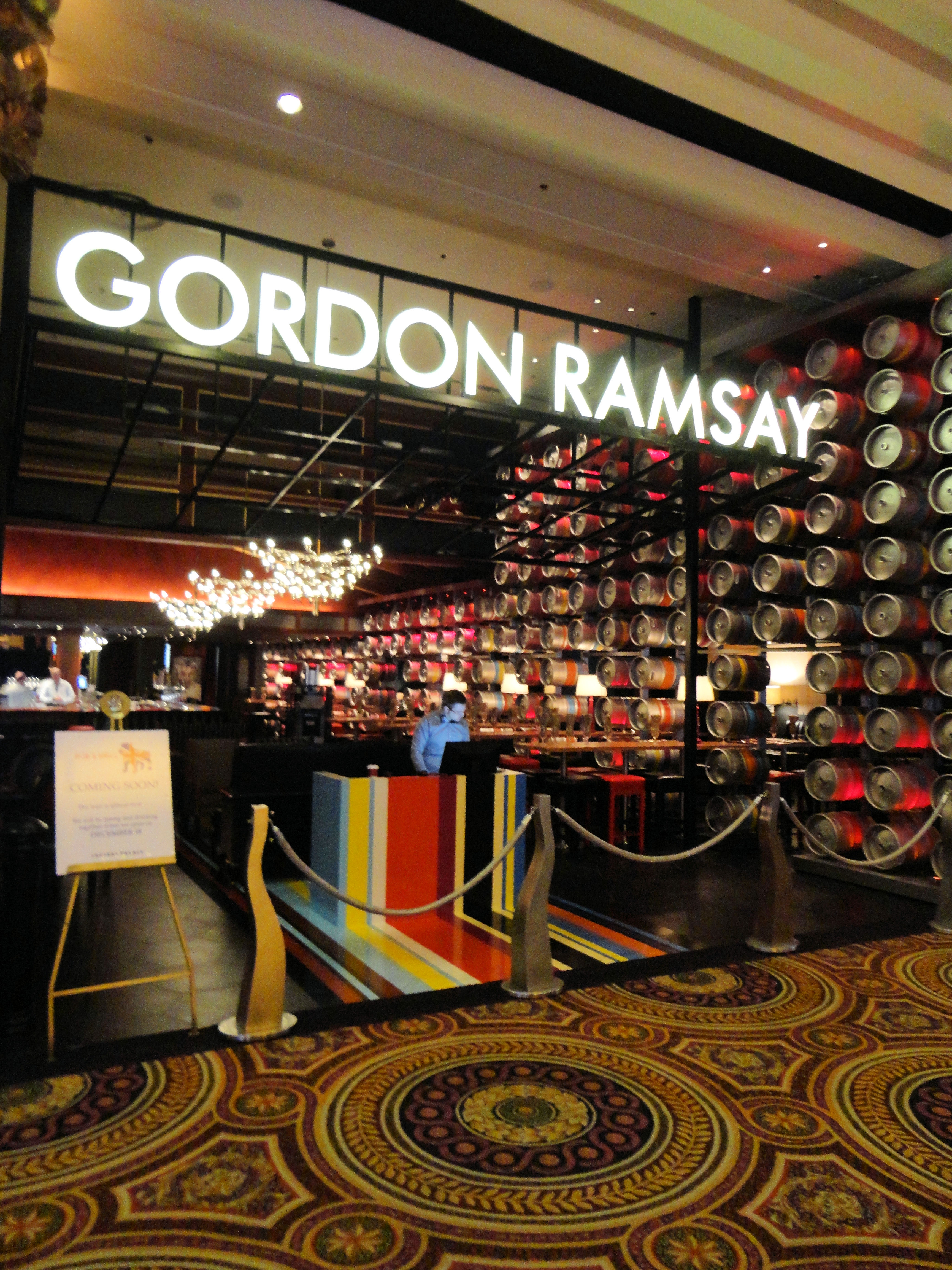 Gordon Ramsay Pub and Grill, Caesar’s Palace Hotel and Casino, Las Vegas, Nevada, USA Gordon Ramsay’s Pub and Grill, Caesar’s Palace Hotel Casino and the Forum Shops, Las Vegas, Nevada, USA